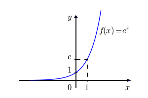 Natural exponential function.